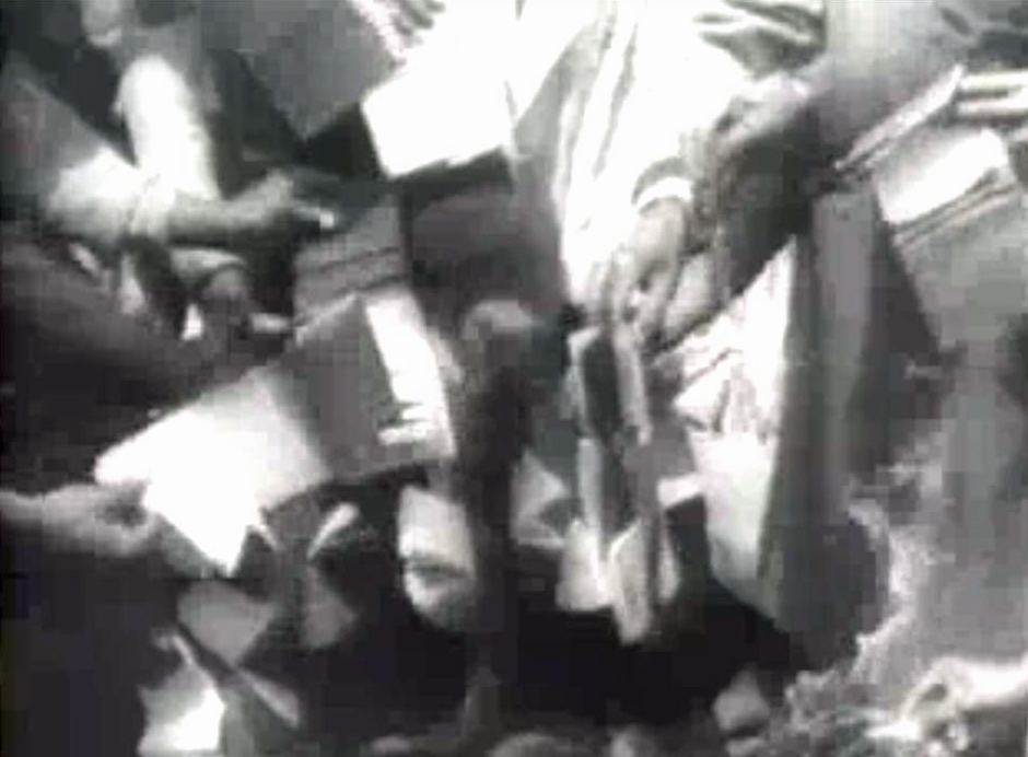 South African protesters discarding passbooks